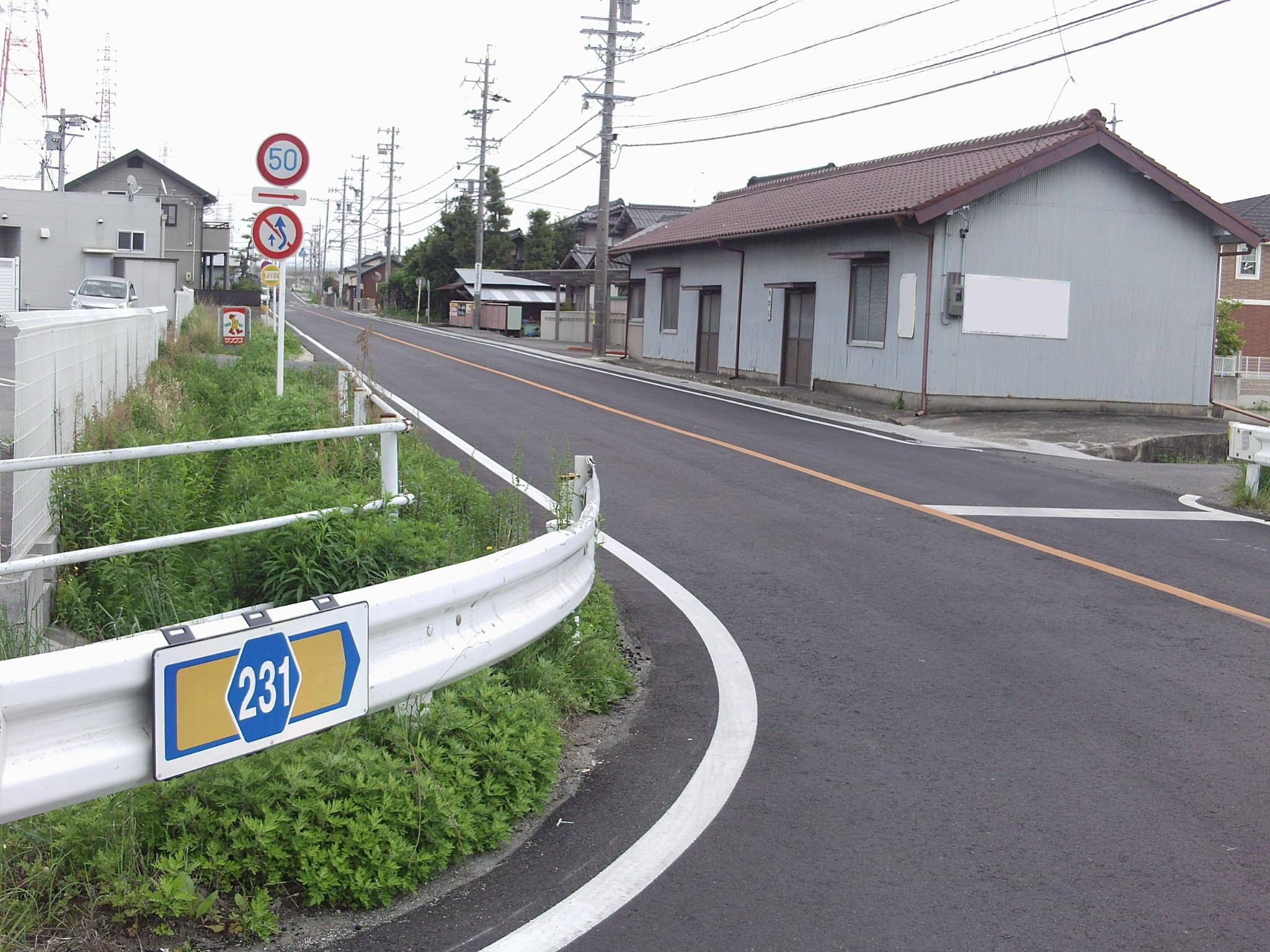 Aichi prefectural road No.231 in Komenokicho, Nisshin, Aichi.